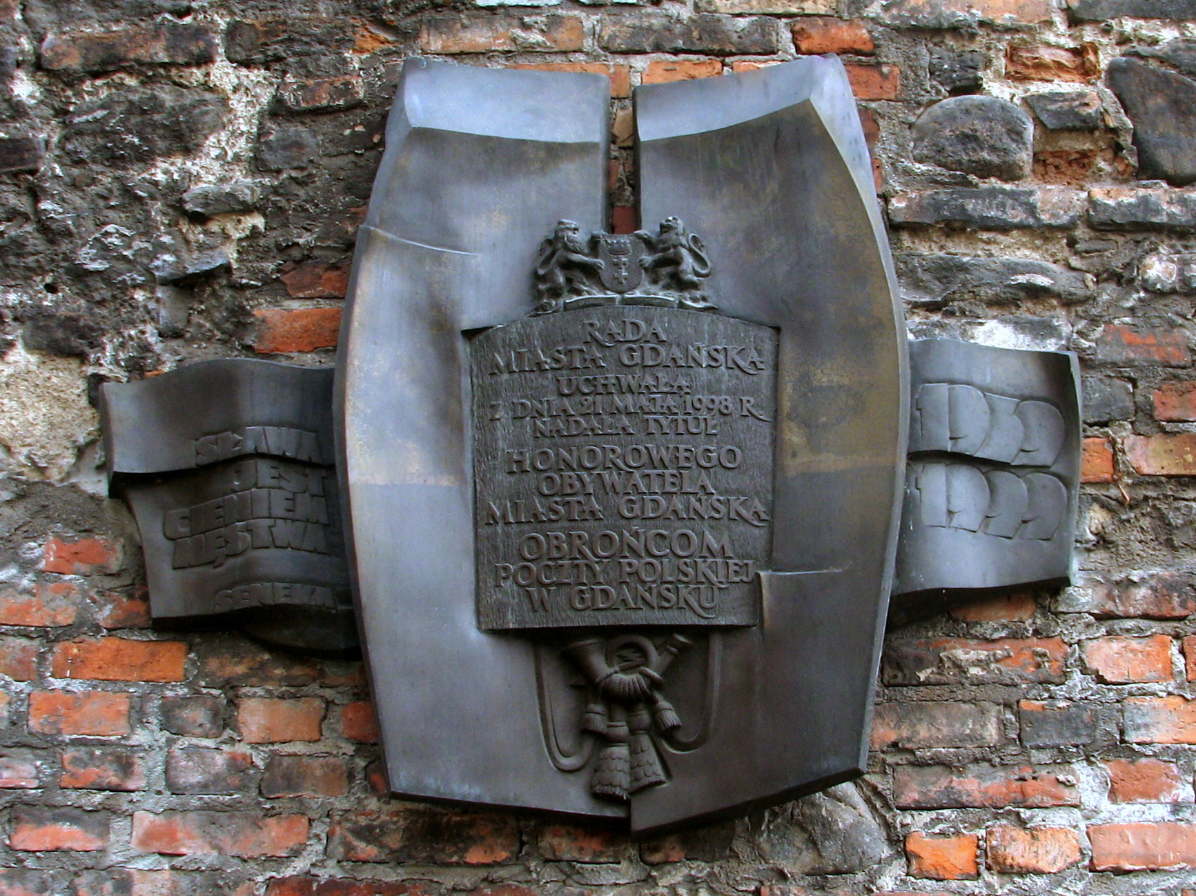 Plaque commemorating the conferment of the honourable citizenship of Gdańsk to defenders of the Polish Post Office.